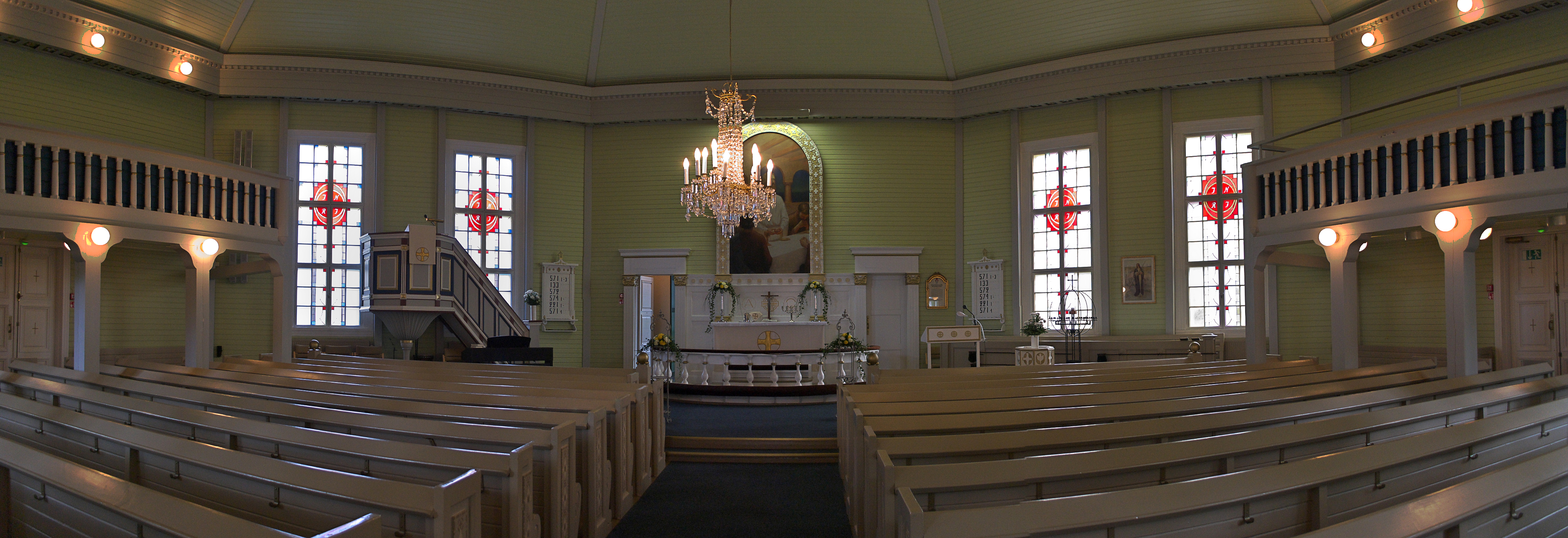 Juupajoki Church interior